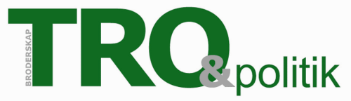 Logo of "Tro & Politik" (Faith & Politics)